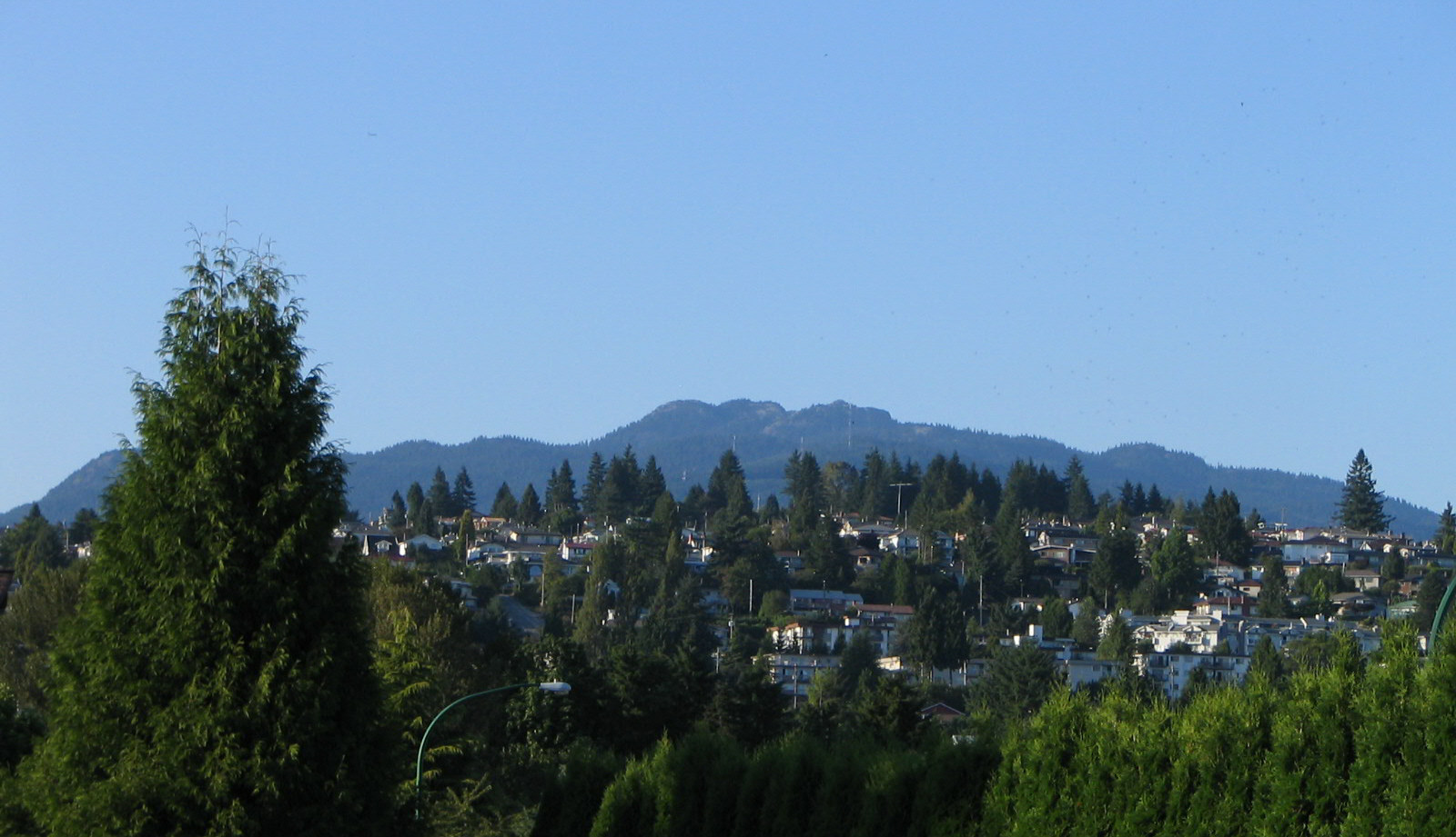 This image was taken by me, Flying Penguin of Pacific Spirit Photography ( in Burnaby, BC, Canada in August 2006